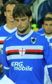 Andrea Poli